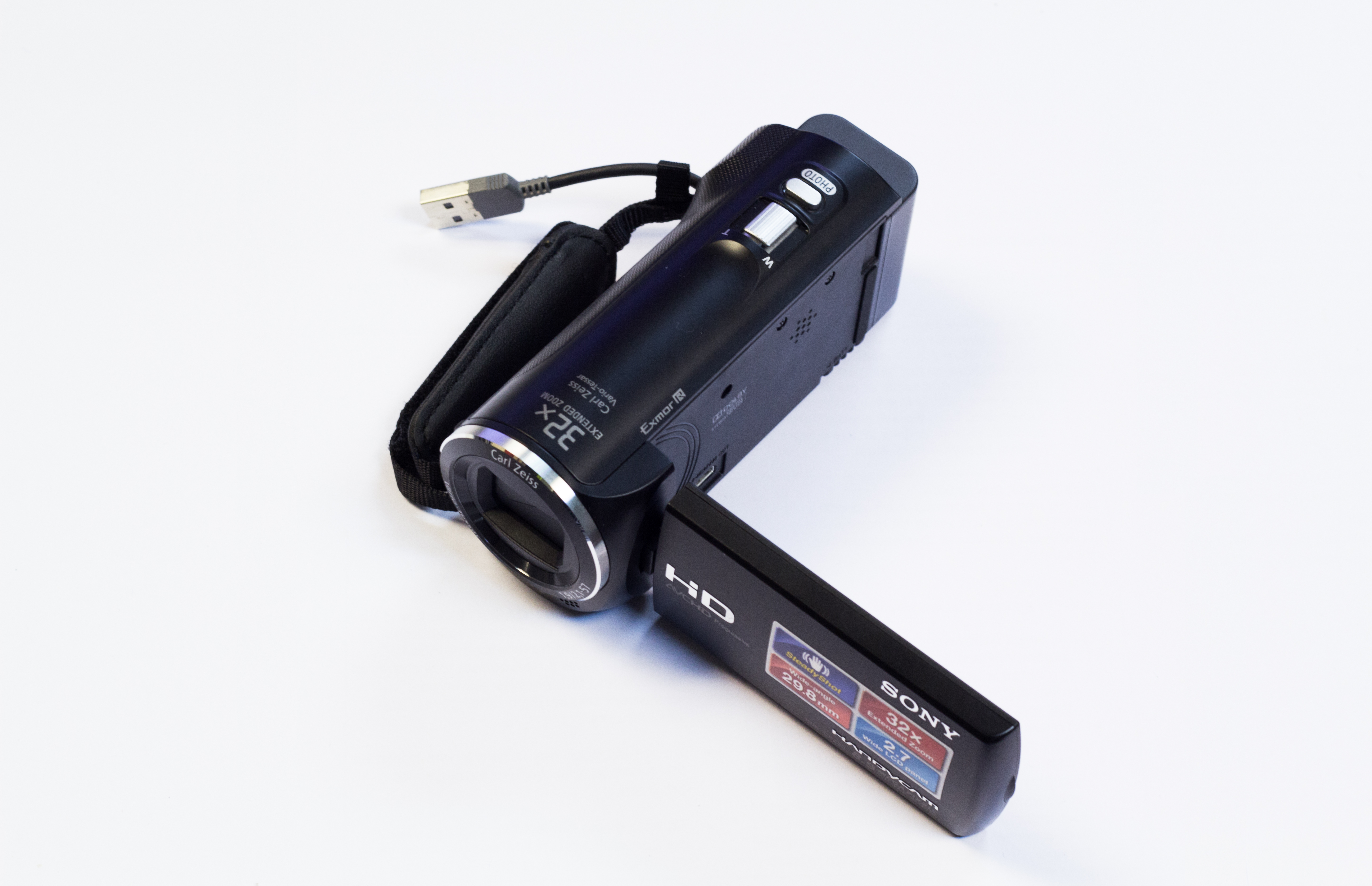 Sony Handycam HDR-CX220E